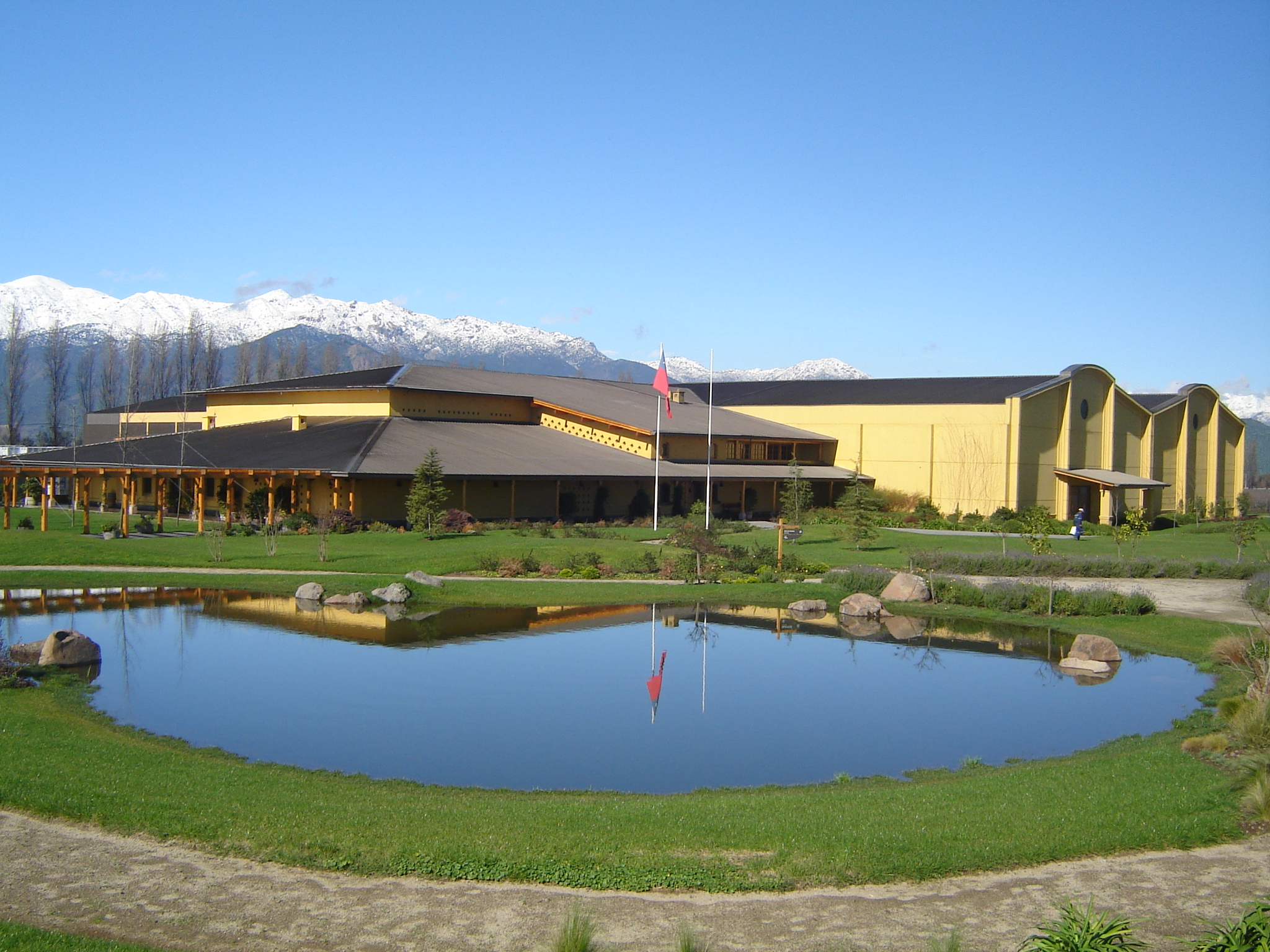 Anakena Winery, Chile